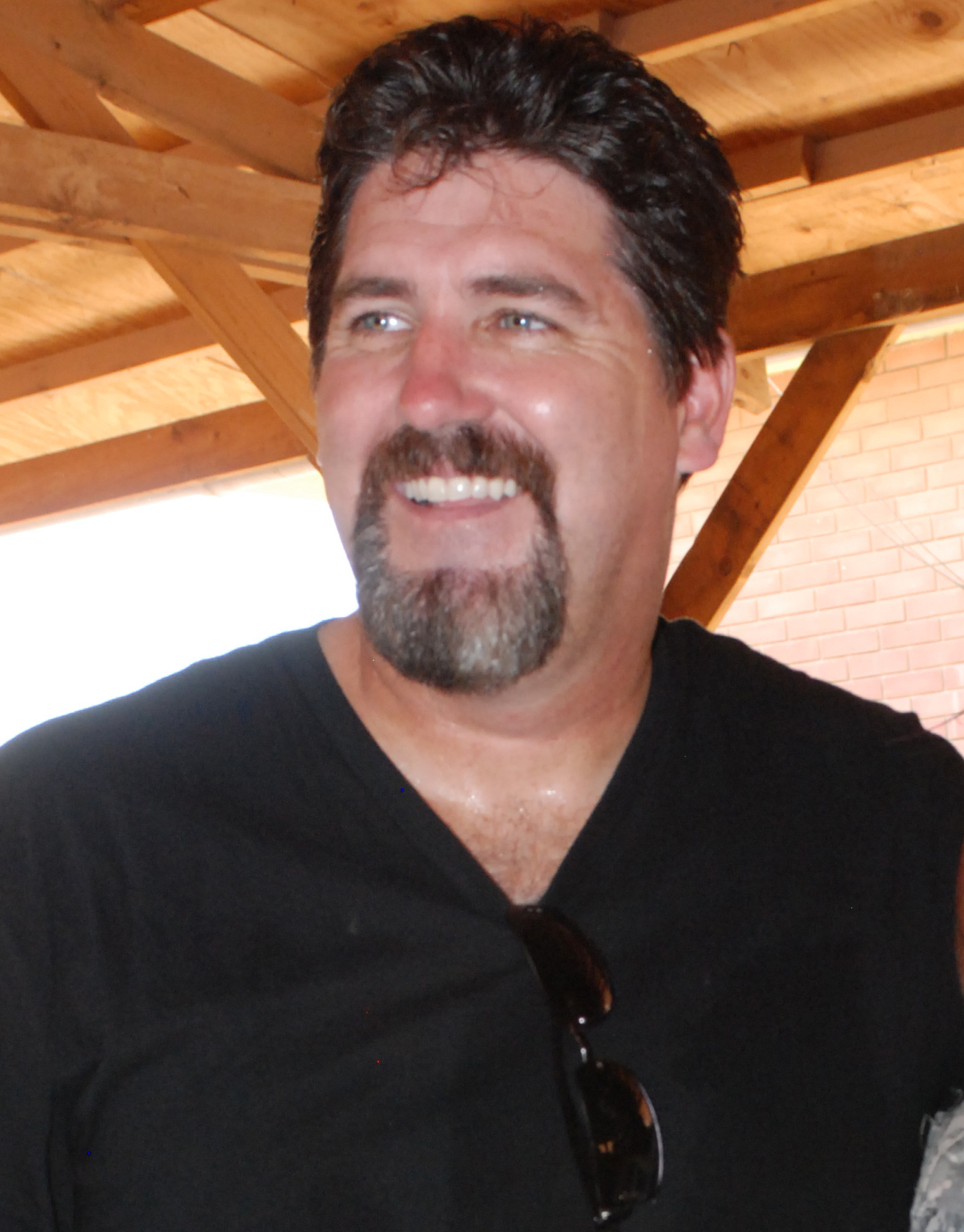 Jim Miller, former football player, poses with a soldier during a visit with Sports By Line host Ron Barr to Joint Base Balad, Aug. 25. They were joined by Bob Delany, NBA referee, and Antonio Freeman, also a former football player.